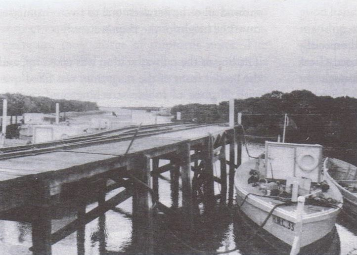 Broad Creek jetty and lighters in February 1912. Hargreaves, 'Photos Miscellaneous Explosives 230 to 360'. WSDS